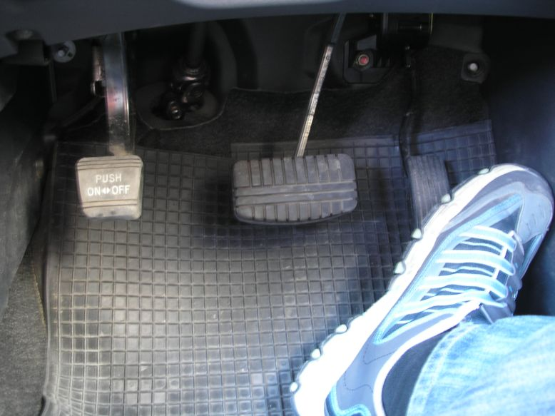 Vehical with steering wheel on the right side. Gas pedal on the right side as usual.